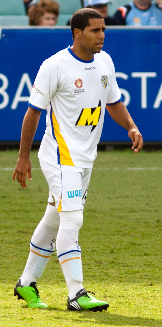 Tahj Minniecon playing for Gold Coast United against Sydney FC in the 2009-10 A-League.